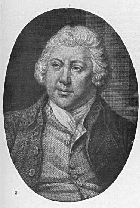 Richard Arkwright portrait